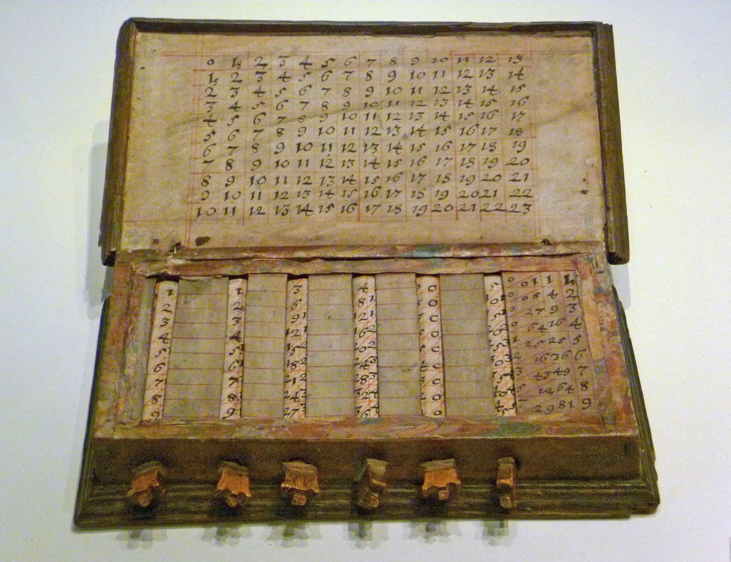 A box of Napier's mathematical calculating tables from around 1680. An exhibit in the National Museum of Scotland.